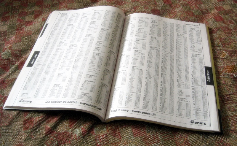 a phone / telephone book / directory